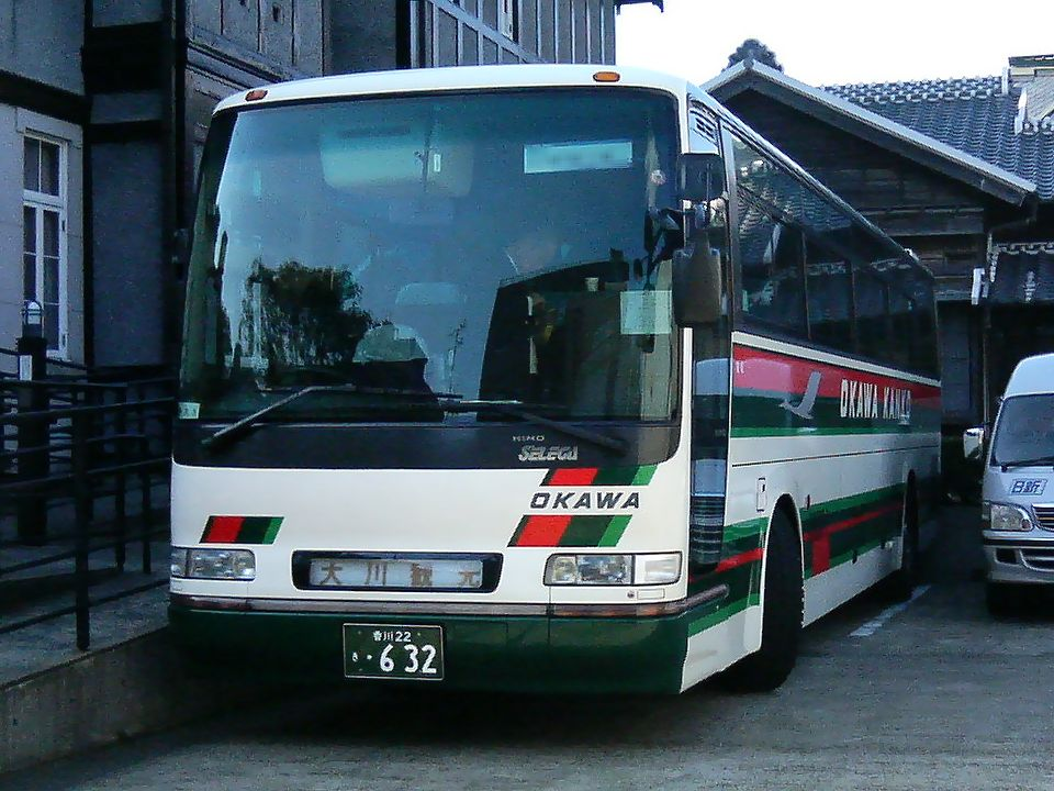 Company:Okawa Bus Use:tour bus Car license:香川22 き・632 Chassis manufacturer:Hino Motors Coachbuilder:Hino Body Location:in Kitakyushu City, Fukuoka, Japan.